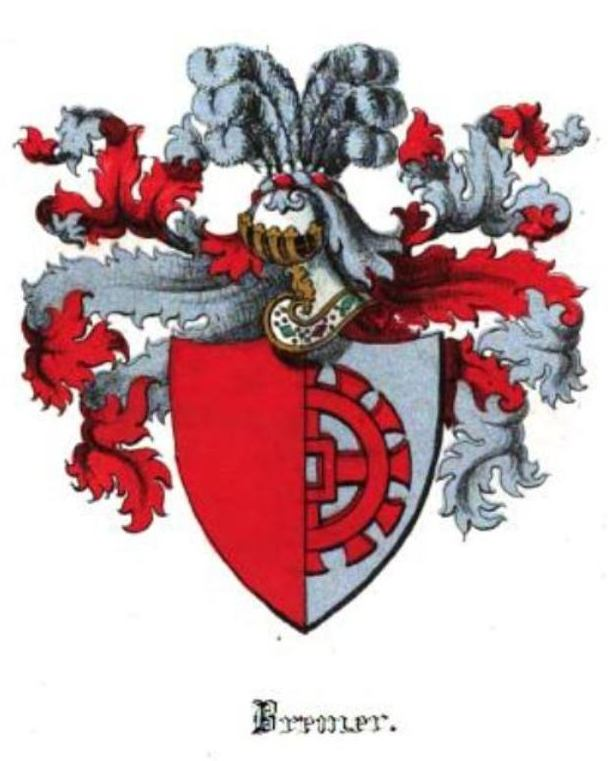 Wappen von Bremer